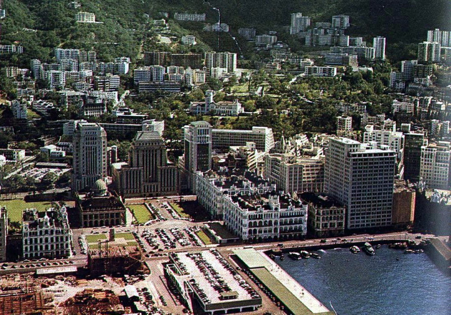 Blick auf Hongkong Central, 1955 Copyright-Status: Public Domain Quelle: Note: Date must be after 1955, since the Standard Chartered Bank Building (1959-1986) was completed in 1959. Hong Kong City Hall, officially opened in 1962, is here under construction.